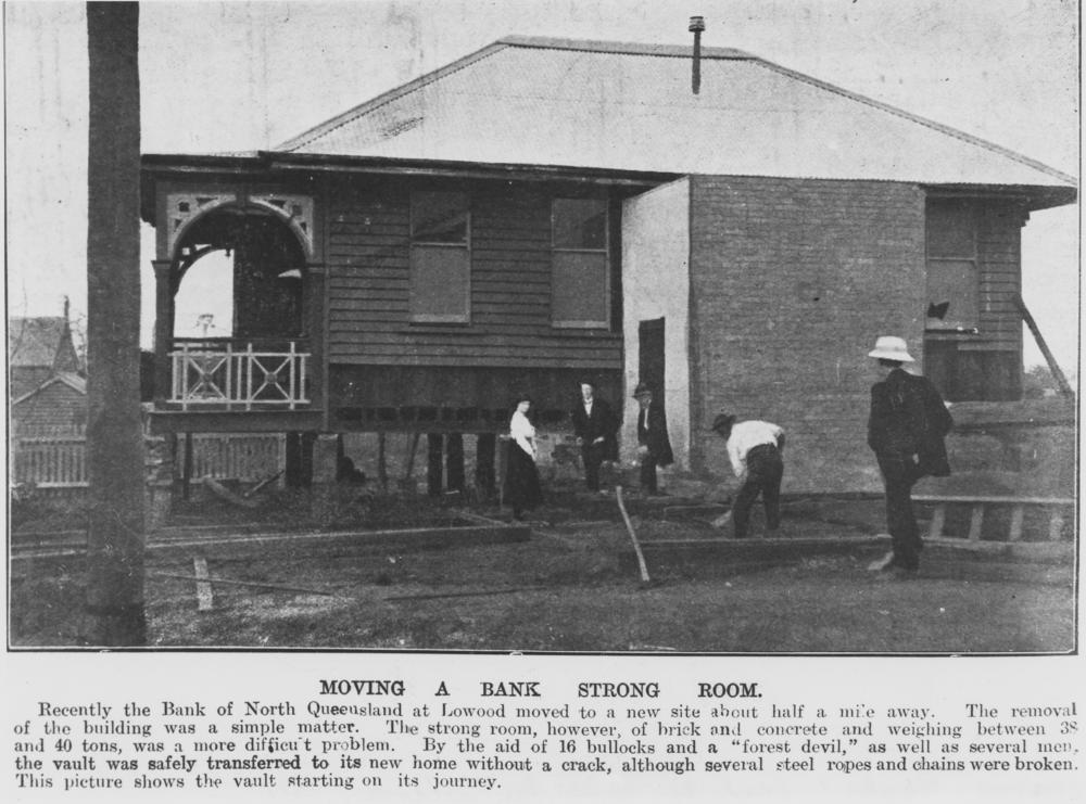 Bank of North Queensland in Lowood, 1917. The Bank of Queensland's building and strong room were moved from their original location to a site abour half a mile away. (Information taken from The Queenslander, 28 July 1917, p. 22.).